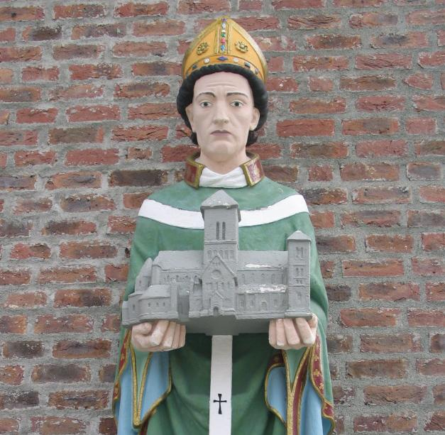 Statue of archbishop Øystein at Nidarosdomen in Trondheim.